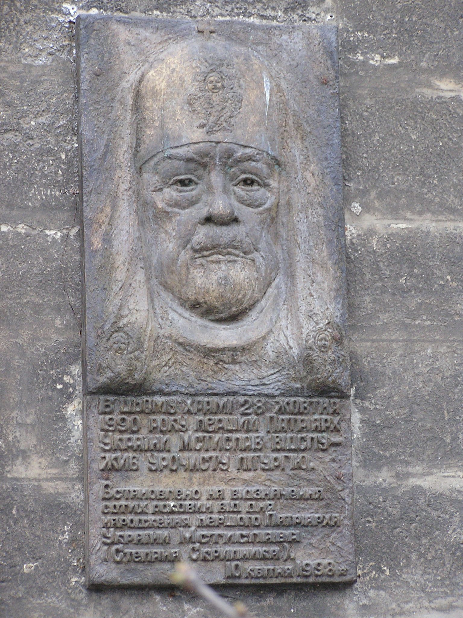 Lviv